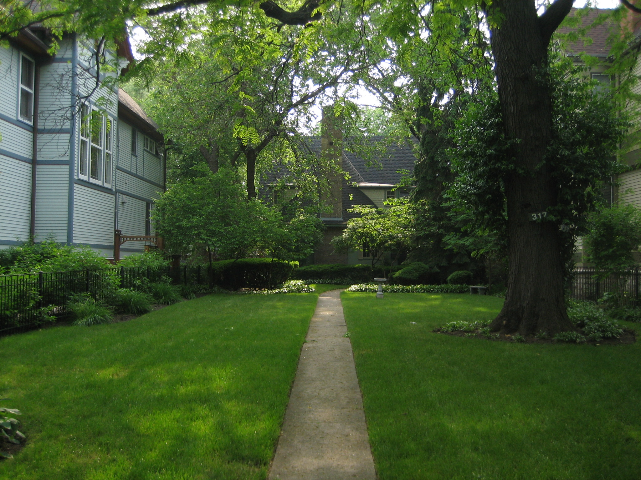 Charles E. Roberts Stable, Frank Lloyd Wright designed remodel 1896. Oak Park, Illinois. Listed as a contributing property to the Frank Lloyd Wright-Prairie School of Architecture Historic District. Listed in the U.S. National Register of Historic Places.